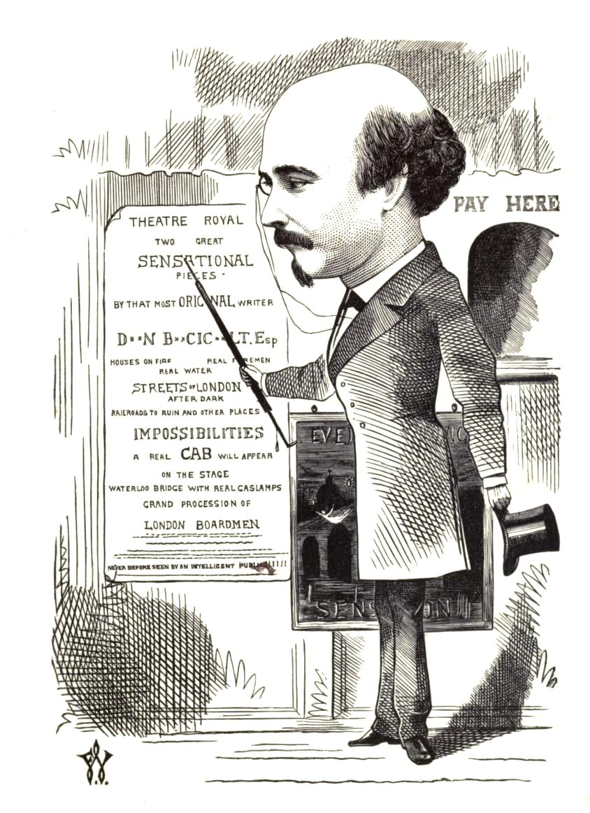 Dion Boucicault, author and actor from Cartoon portraits and biographical sketches of men of the day